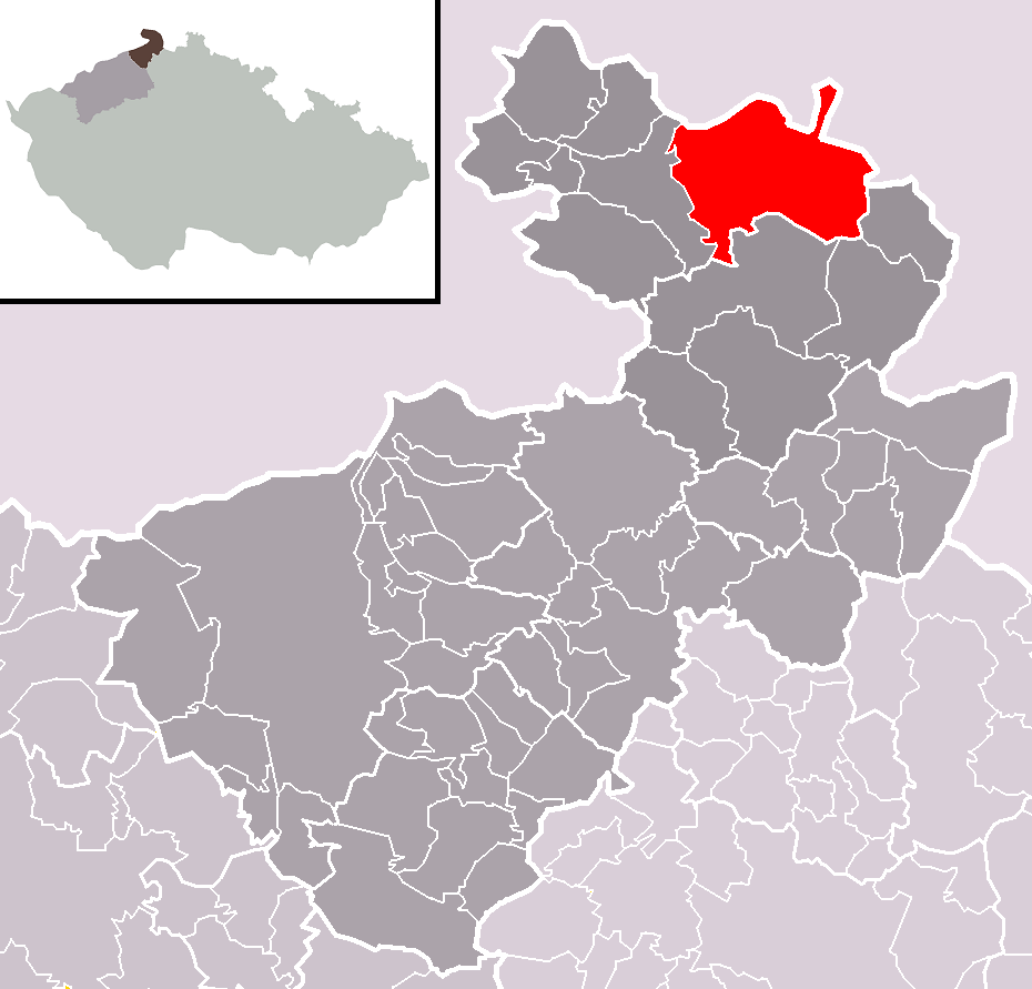 Location of Šluknov town within Děčín District and administrative area of Rumburk as a Municipality with Extended Competence.